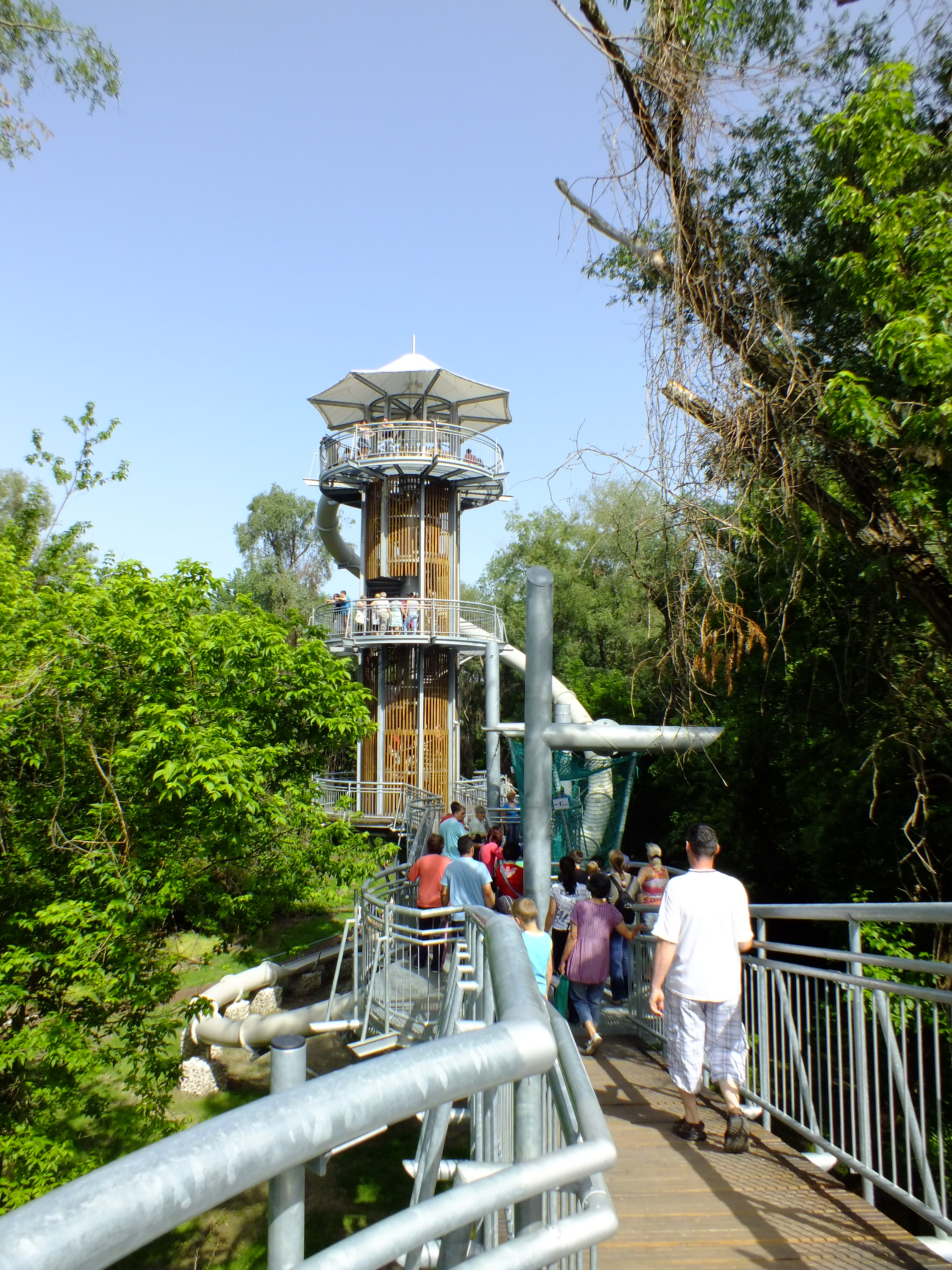 Canopy walkway in Makó, Hungary, near the Maros river.